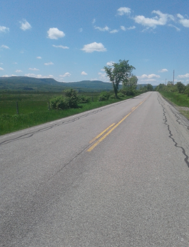 NY State Route 163 east of the hamlet of Buel with Mount Independence in background.